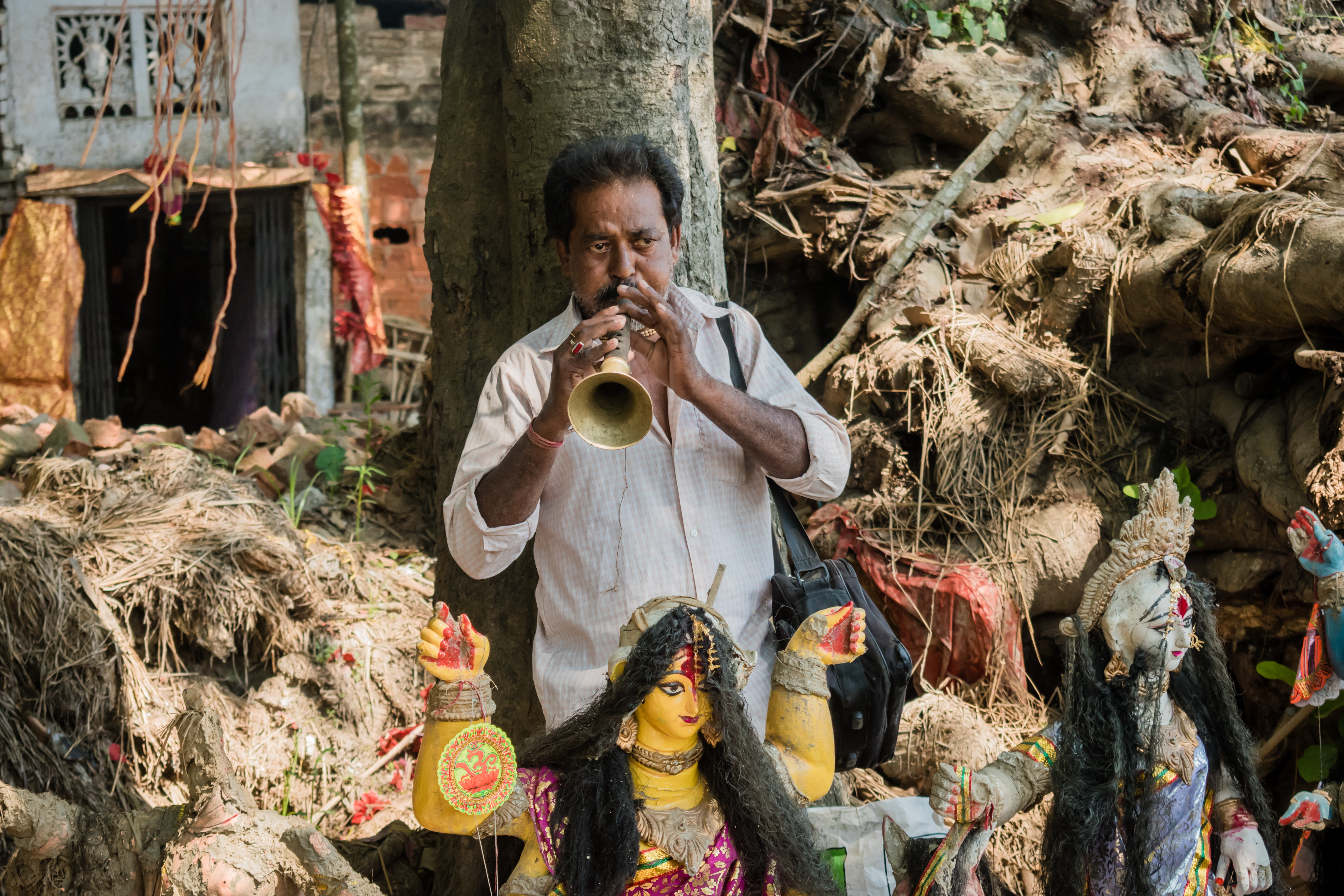 This photo has been taken in the country: India